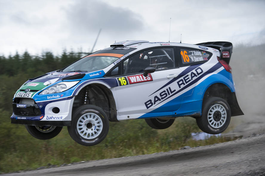 Wales Rally Great Britain 2012 Ford Fiesta RS WRC,Free Practice,Freies Training,Jannie Habig,M-Sport Ford WRT,M-Sport Ford World Rally Team,Motorsport,Rally,Rallye,Robbie Durant,Shakedown,WRC,Wales Rally GB,Walters Arena